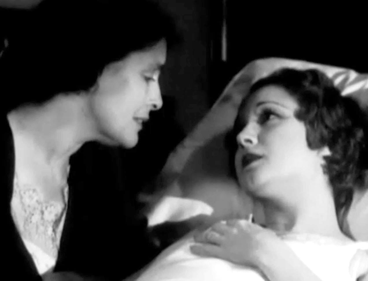 Low resolution screenshot of Helen Foster as Ann Dixon and Virginia True Boardman as Martha Dixon from the American public domain exploitation film The Road to Ruin (1934). In this scene Ann is on her deathbed following an unsanitary abortion and asking her mother Martha to pray for her.